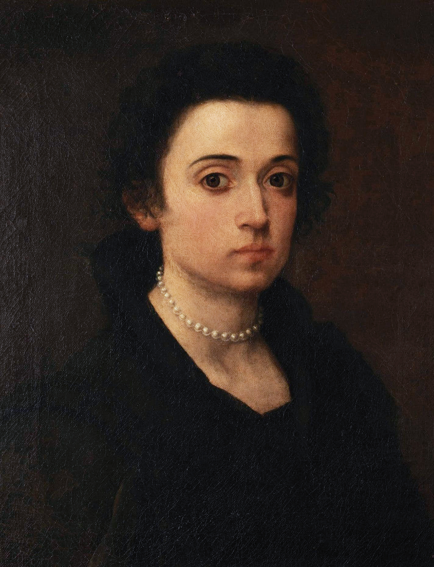 Self-portrait in Uffizi Gallery